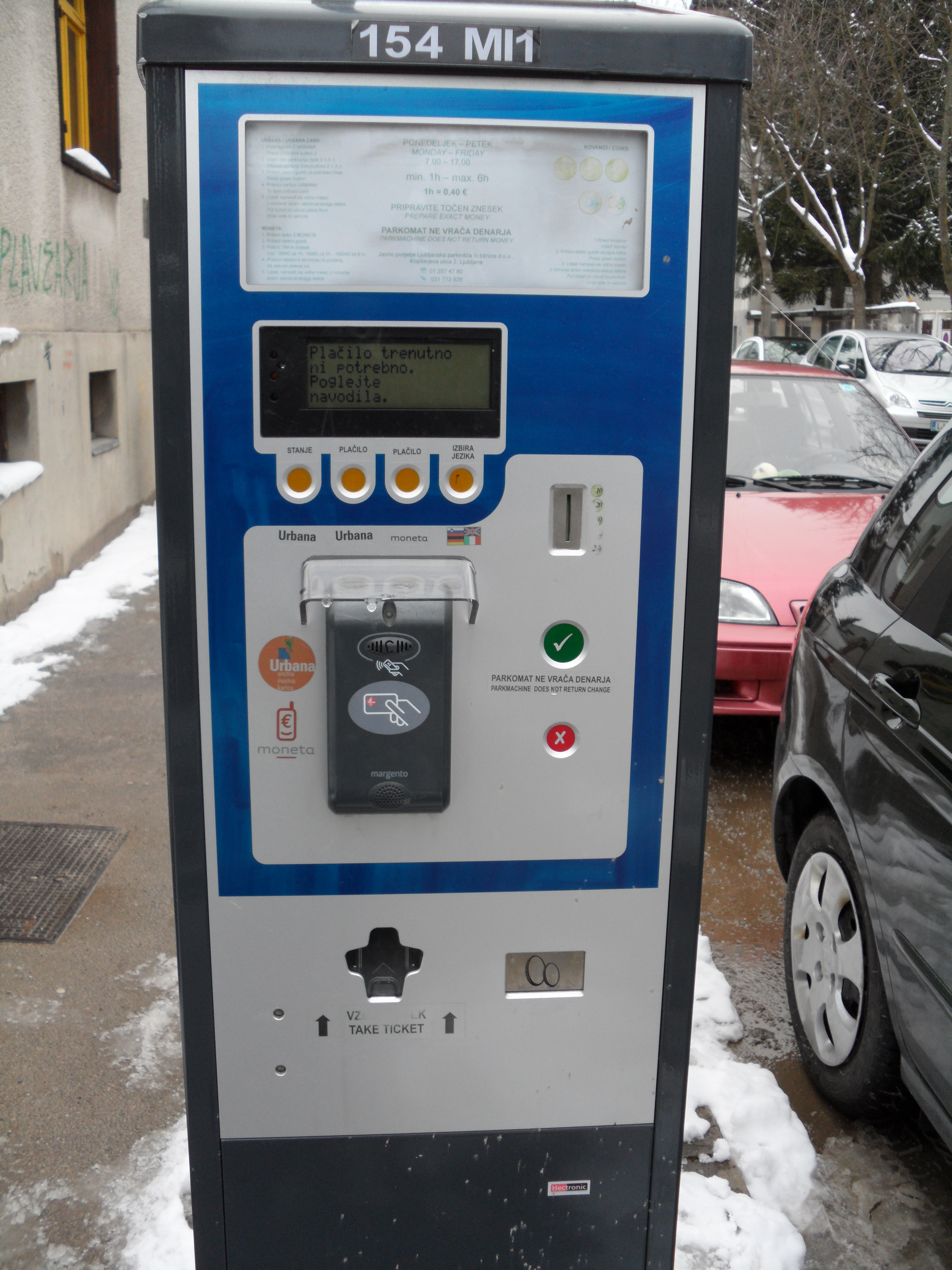 Parking meter, Ljubljana city centre